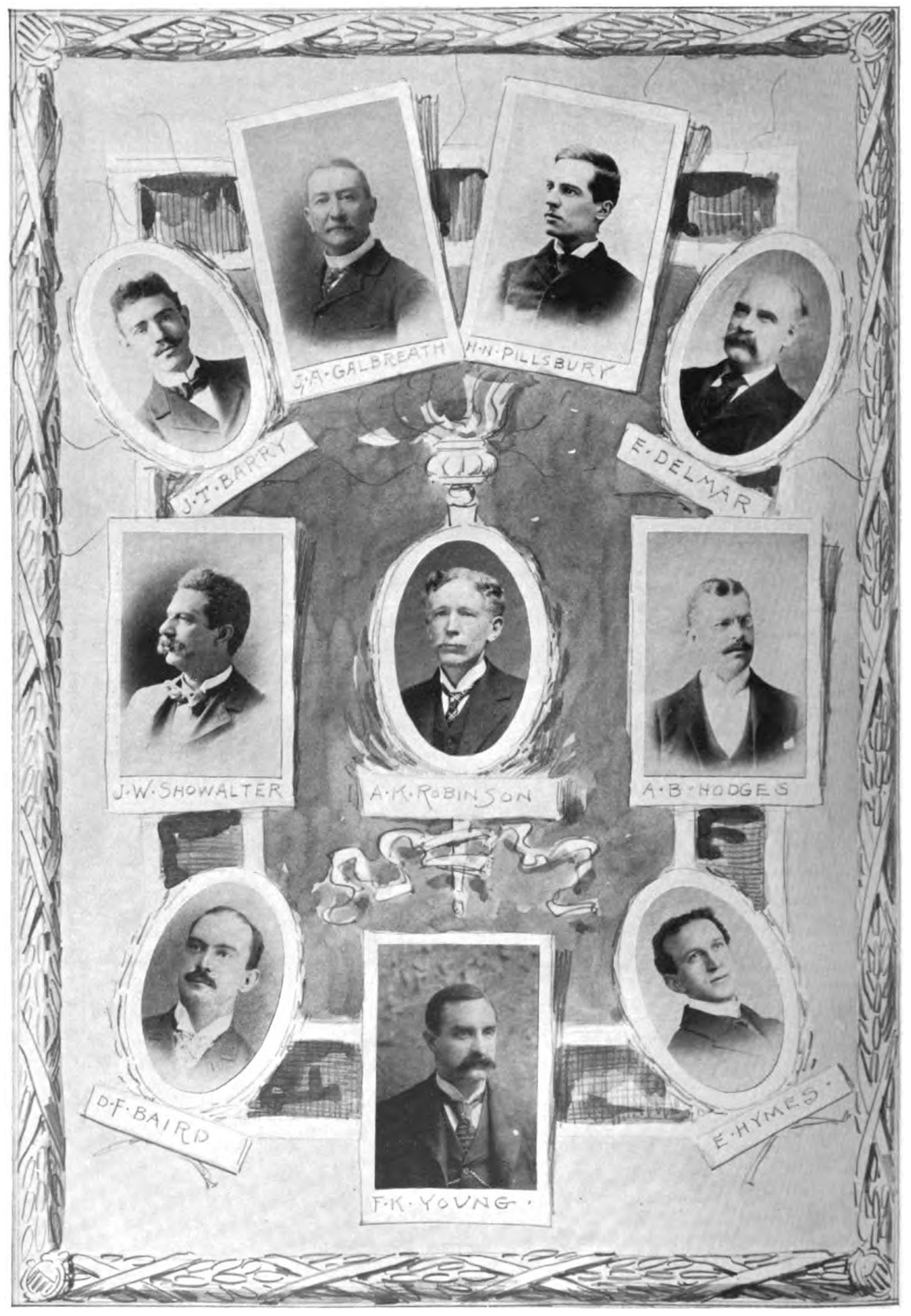 United States Team of the Anglo-American Cable Chess Match of 1898